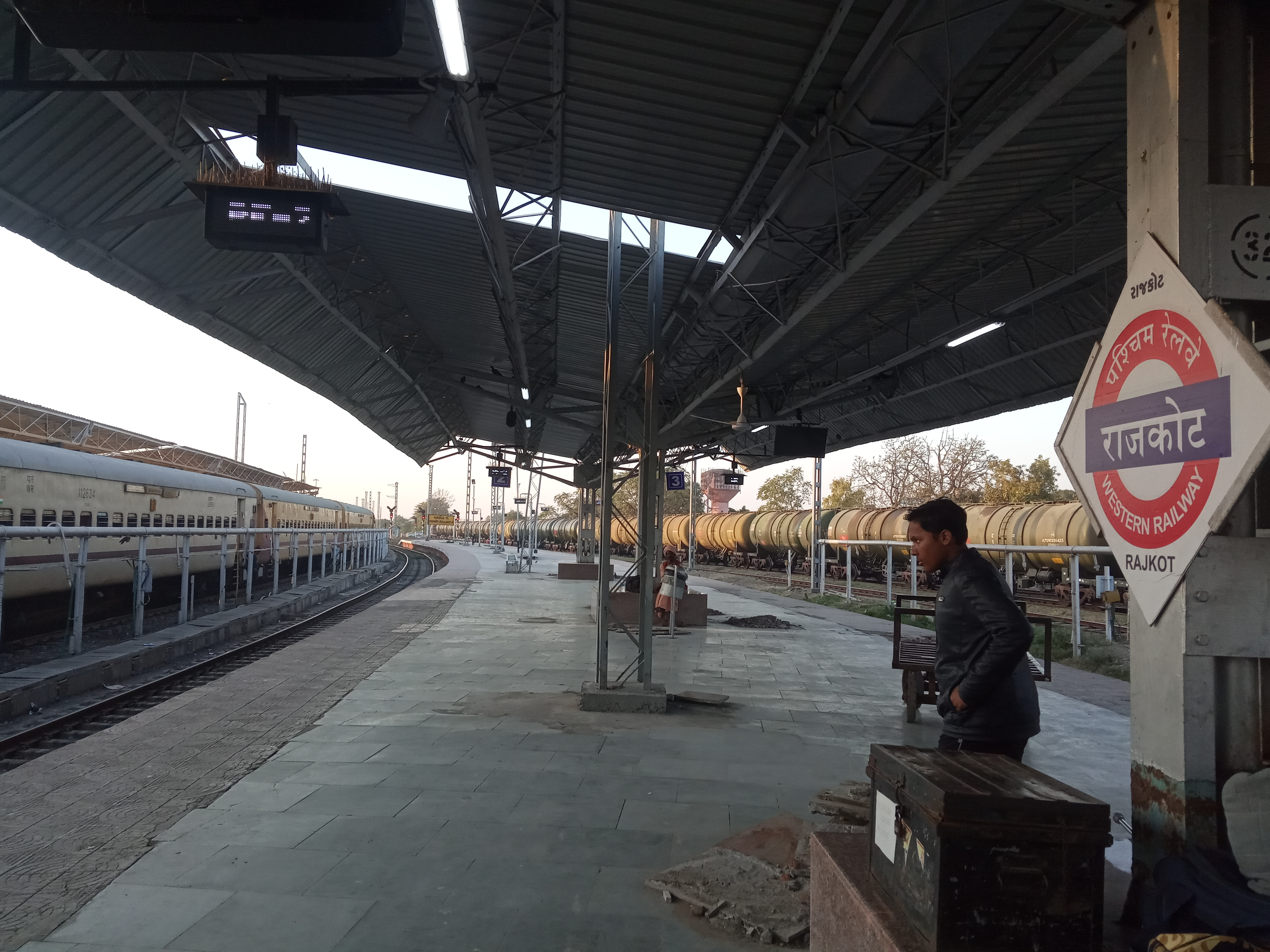 Rajkot railway station